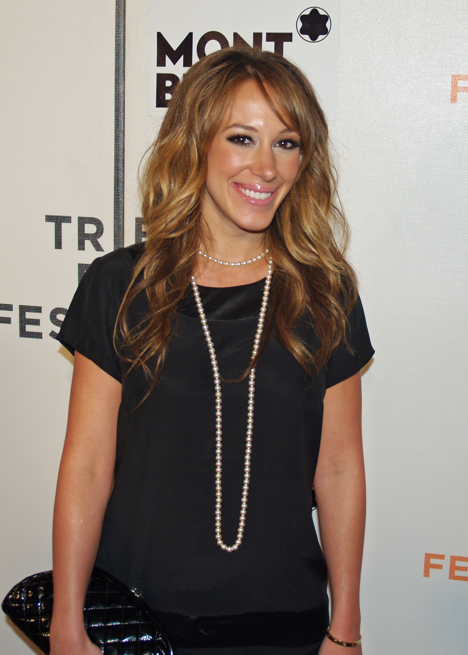 Haylie Duff at the premiere of War, Inc. at the 2008 Tribeca Film Festival.